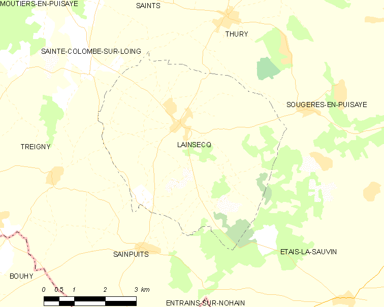 Map of French municipality Lainsecq